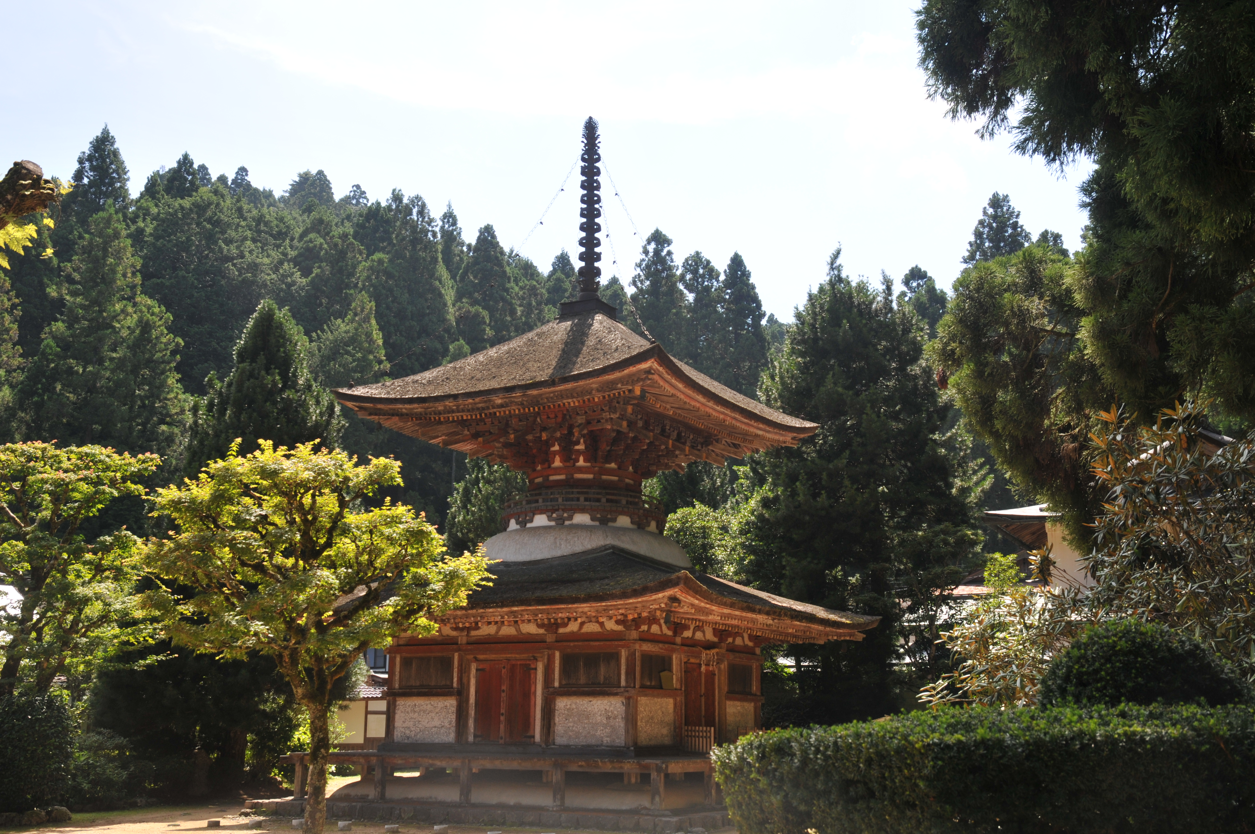 Tahō-tō(Japan's National Treasure), Kongōsanmai-in